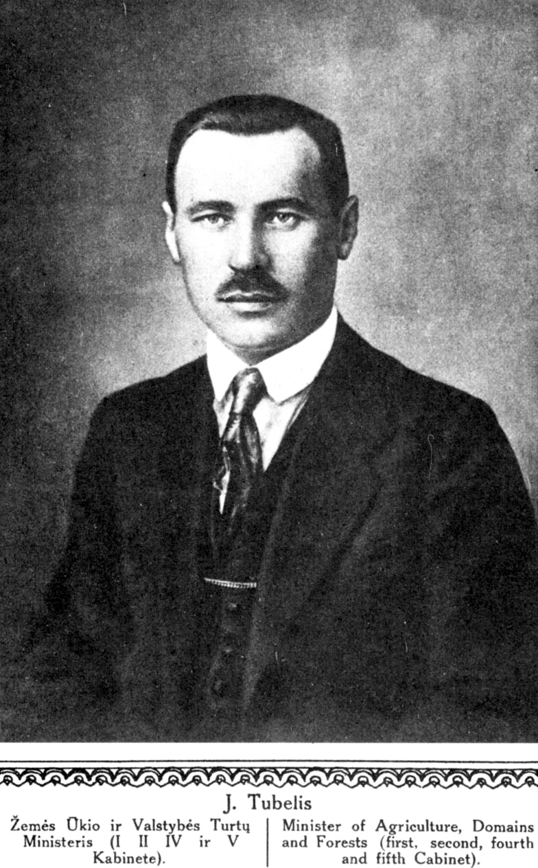 Juozas Tūbelis, prime minister of Lithuania